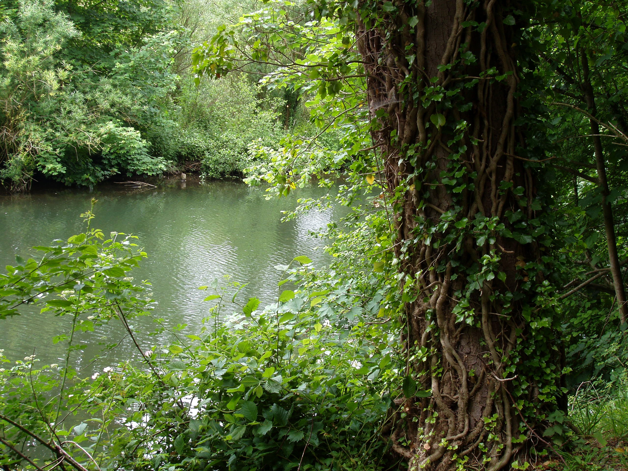 River Thames at Cliveden, Buckinghamshire, England.